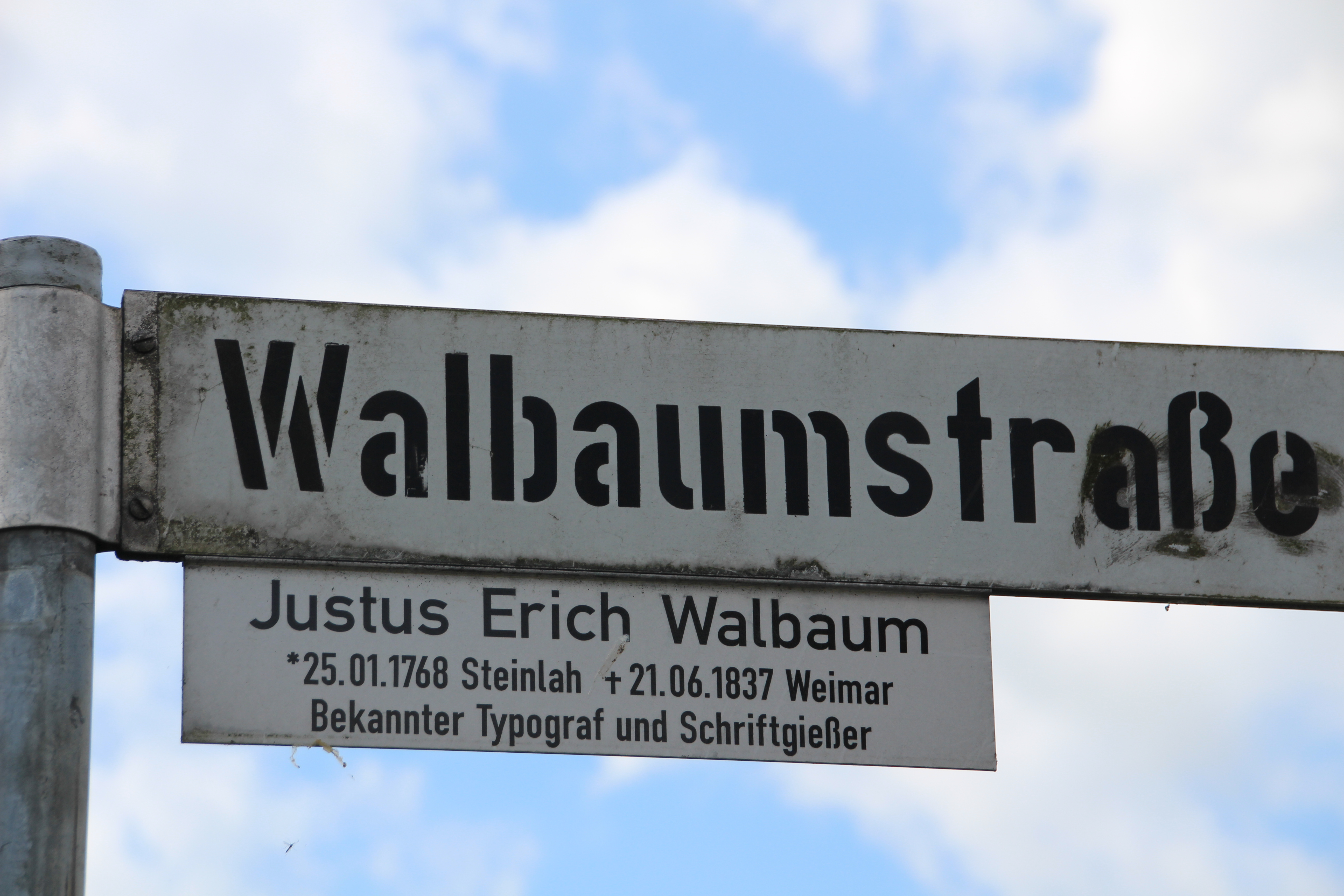 The famous german printer Justus Erich Walbaum was born in Steinlah. A street there shows his name.